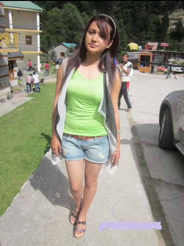 Bala Hijam6